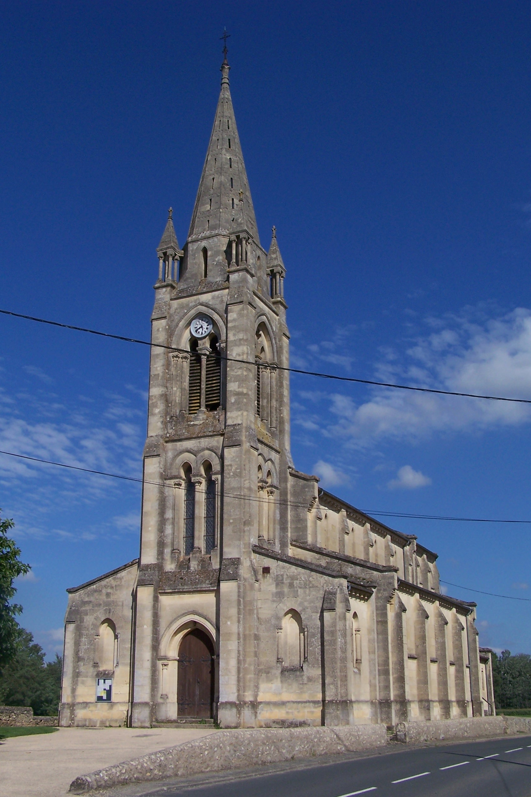 Church Saint-Vincent of Morizès (Gironde, France)